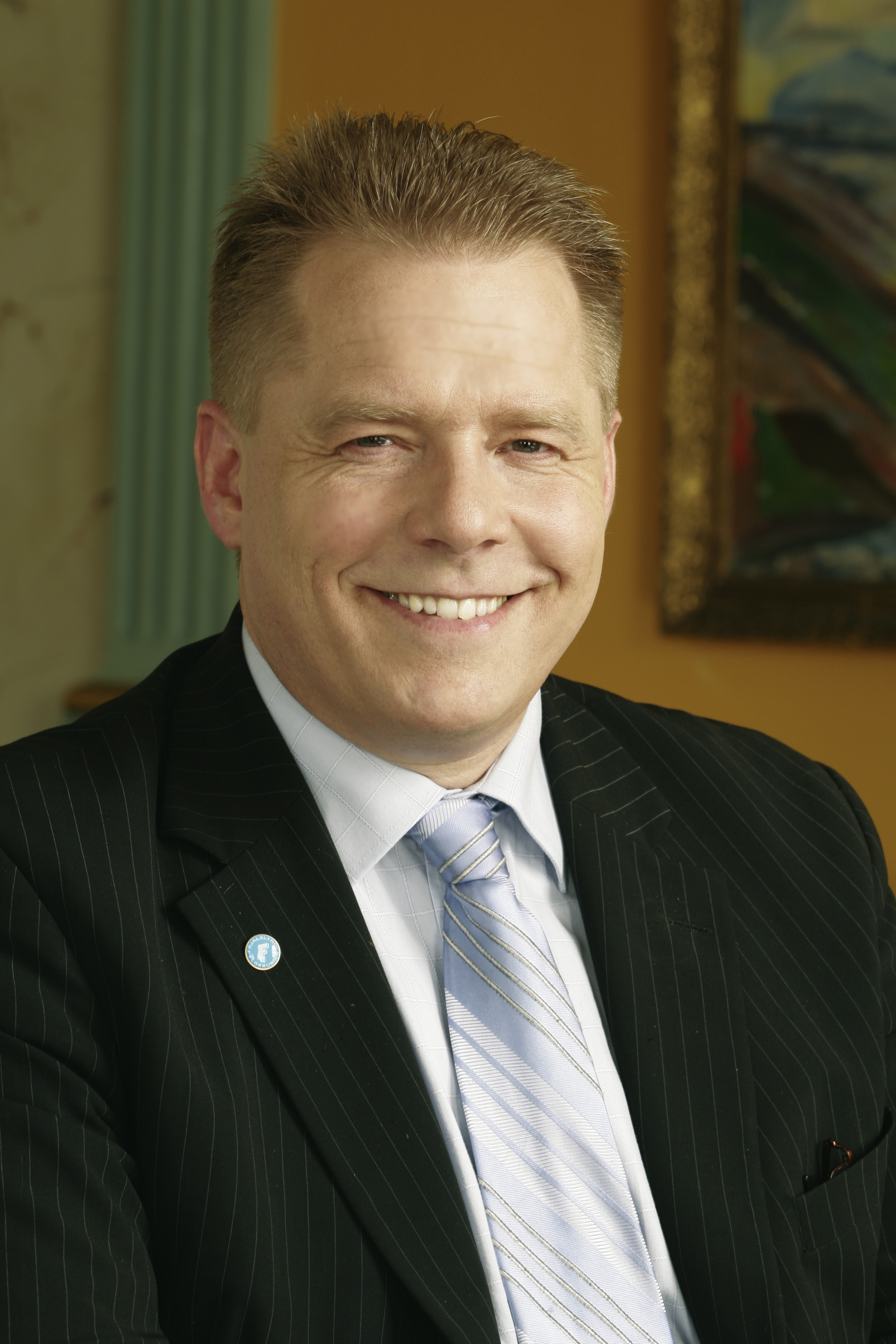 Magnús Þór Hafsteinsson, former MP for the Icelandic Liberal Party